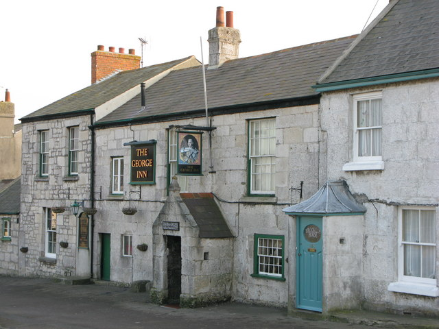 The George Inn, Reforne The oldest public house on Portland dating from the mid 18th century. Originally the meeting place of the Court Leet of the Royal Manor of Portland